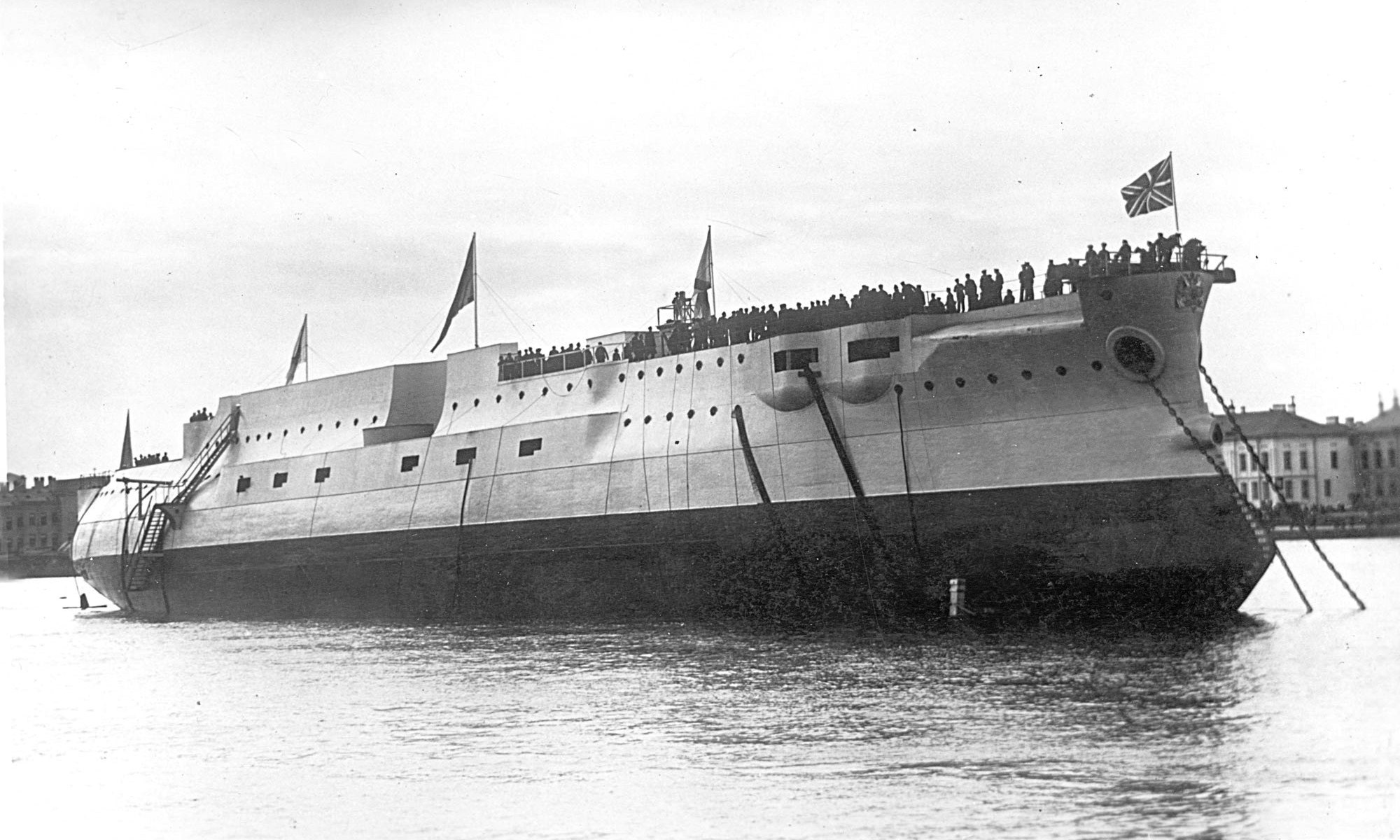 The Imperial Russian battleship «Borodino» was launched, 3 August 1901.